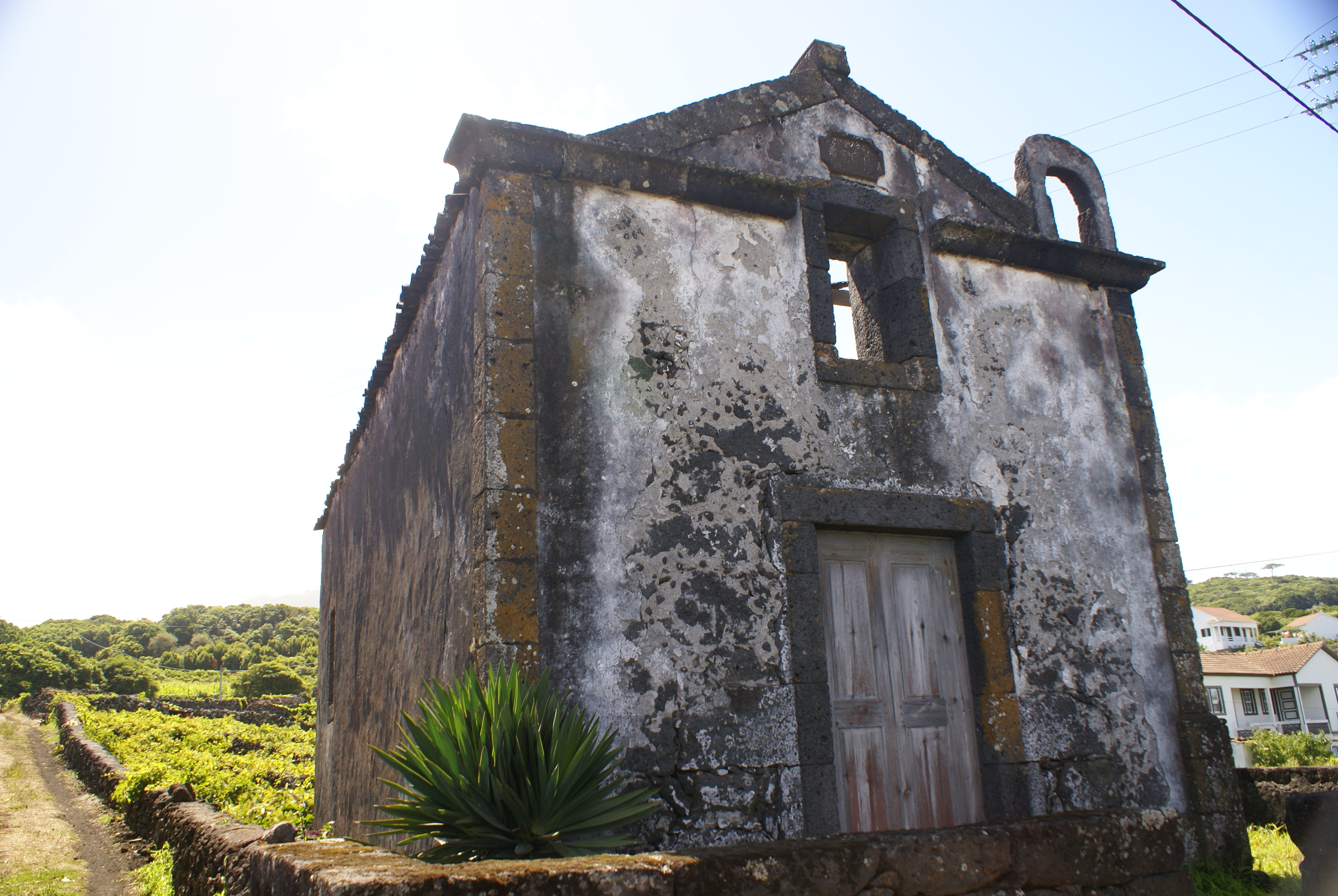 Chapel of Nossa Senhora da Conceição da Rocha, Fajã do Calhau, Piedade, Lajes do Pico, Pico (Azores), Portugal